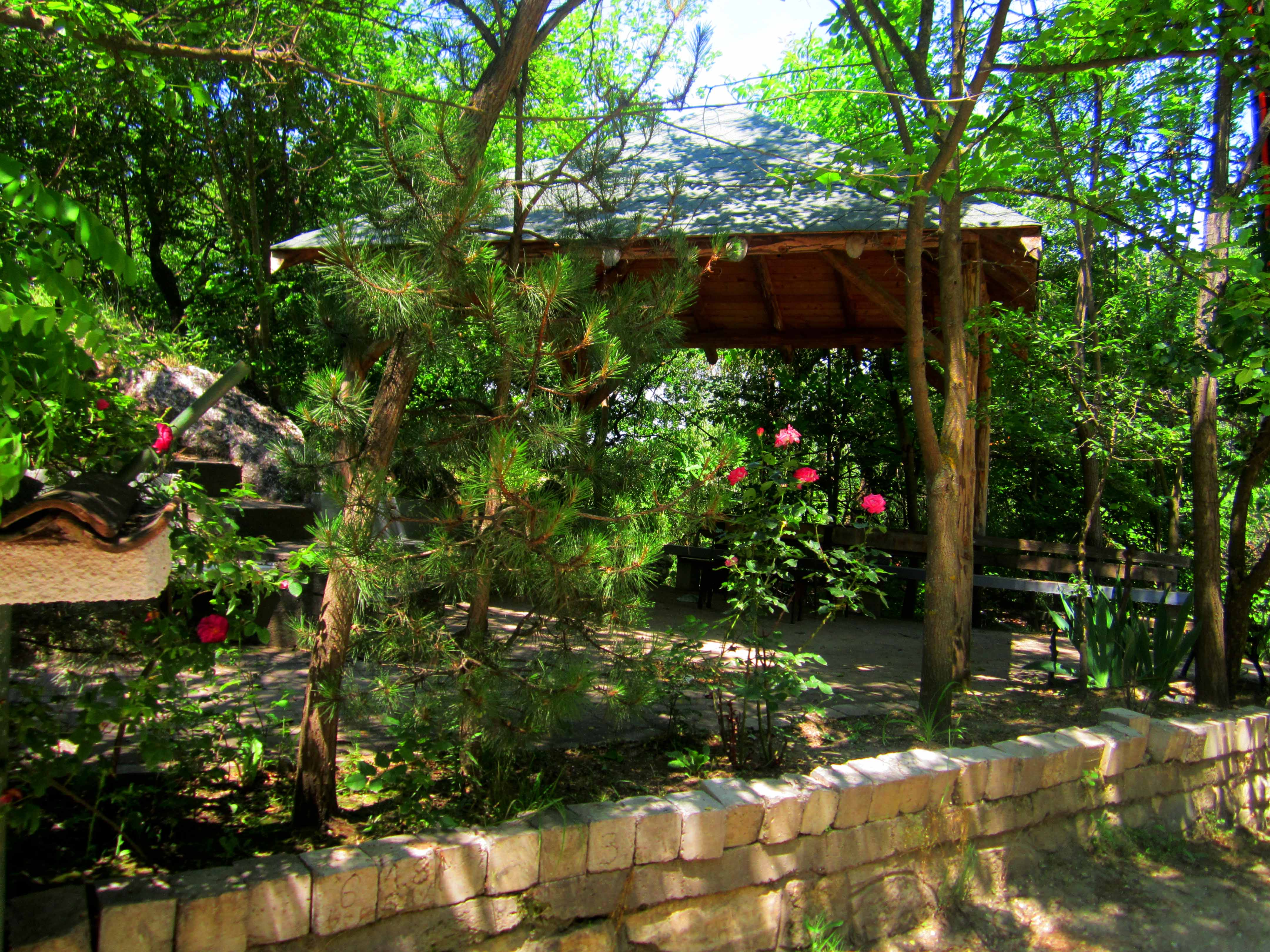 In the yard of the church Holy Week in Katlanovo Bath